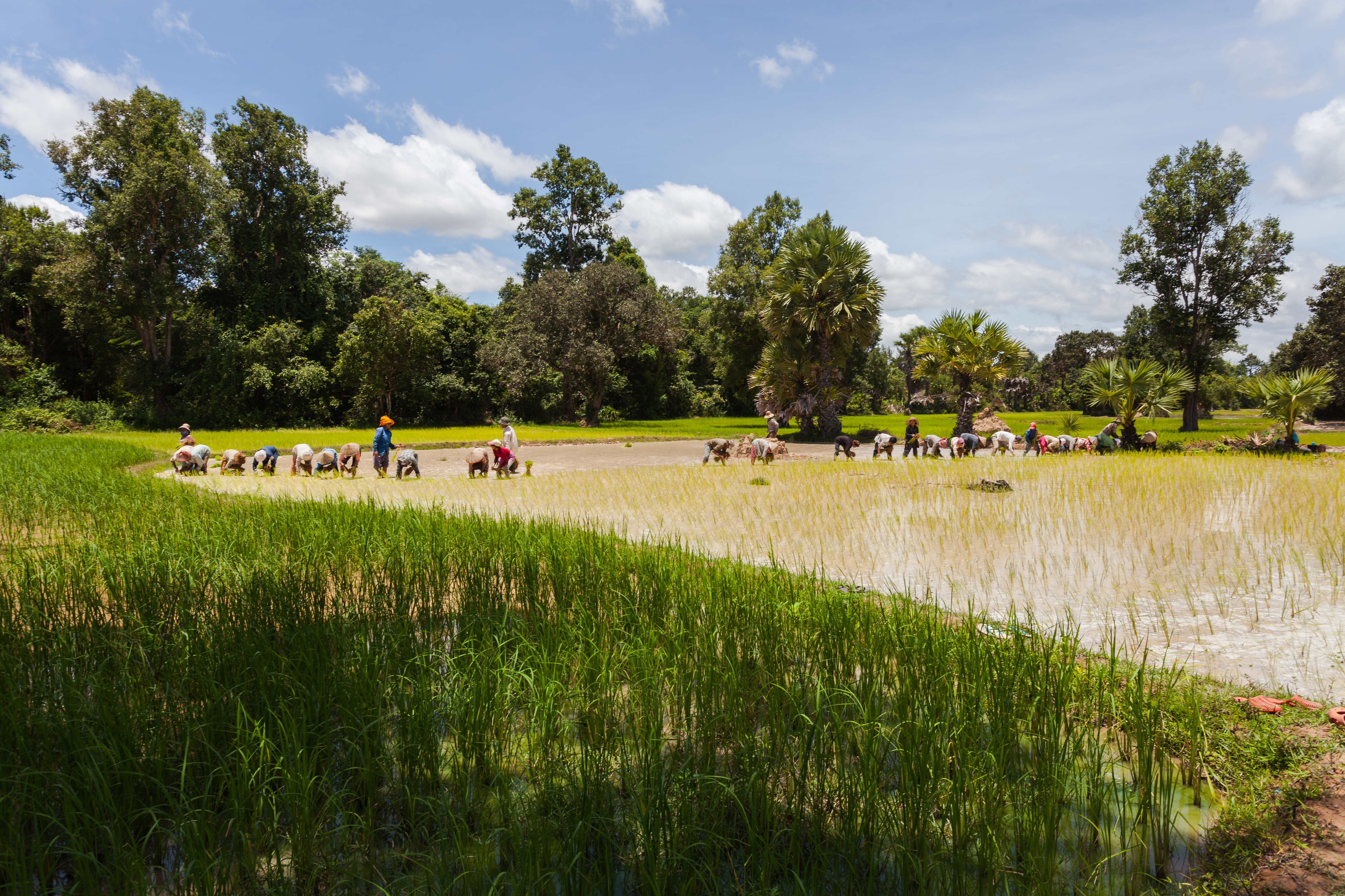 Paddy field, Angkor, Cambodia